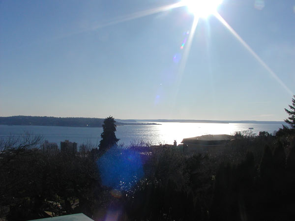 View across Elliott Bay to West Seattle from Queen Anne Hill, Seattle, Washington, USA